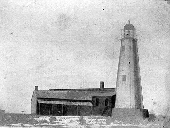 Public Domain statement here; 1840 Lighthouse - St. Marks Light is a light station in Florida. It is located on the east side of the mouth of the St. Marks River, on Apalachee Bay.